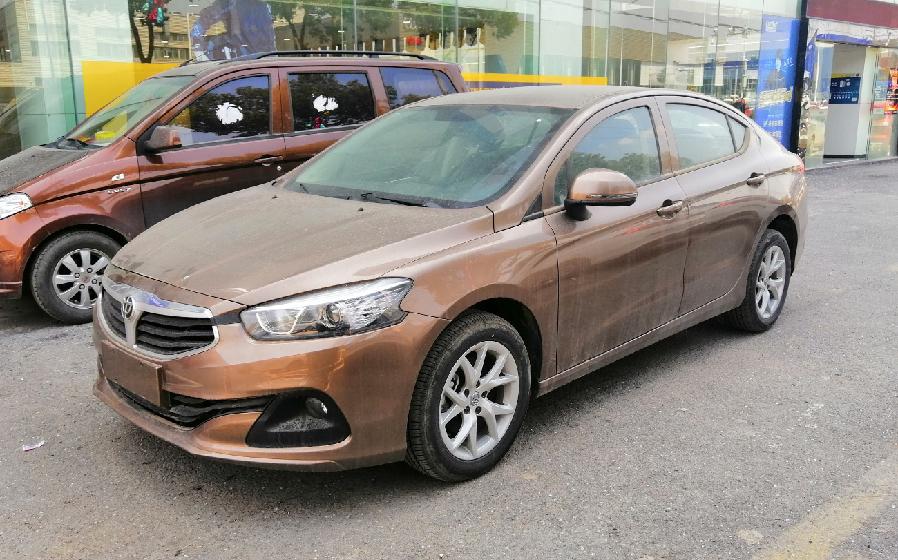 Brilliance H3 photographed in Hefei, Anhui province, China.